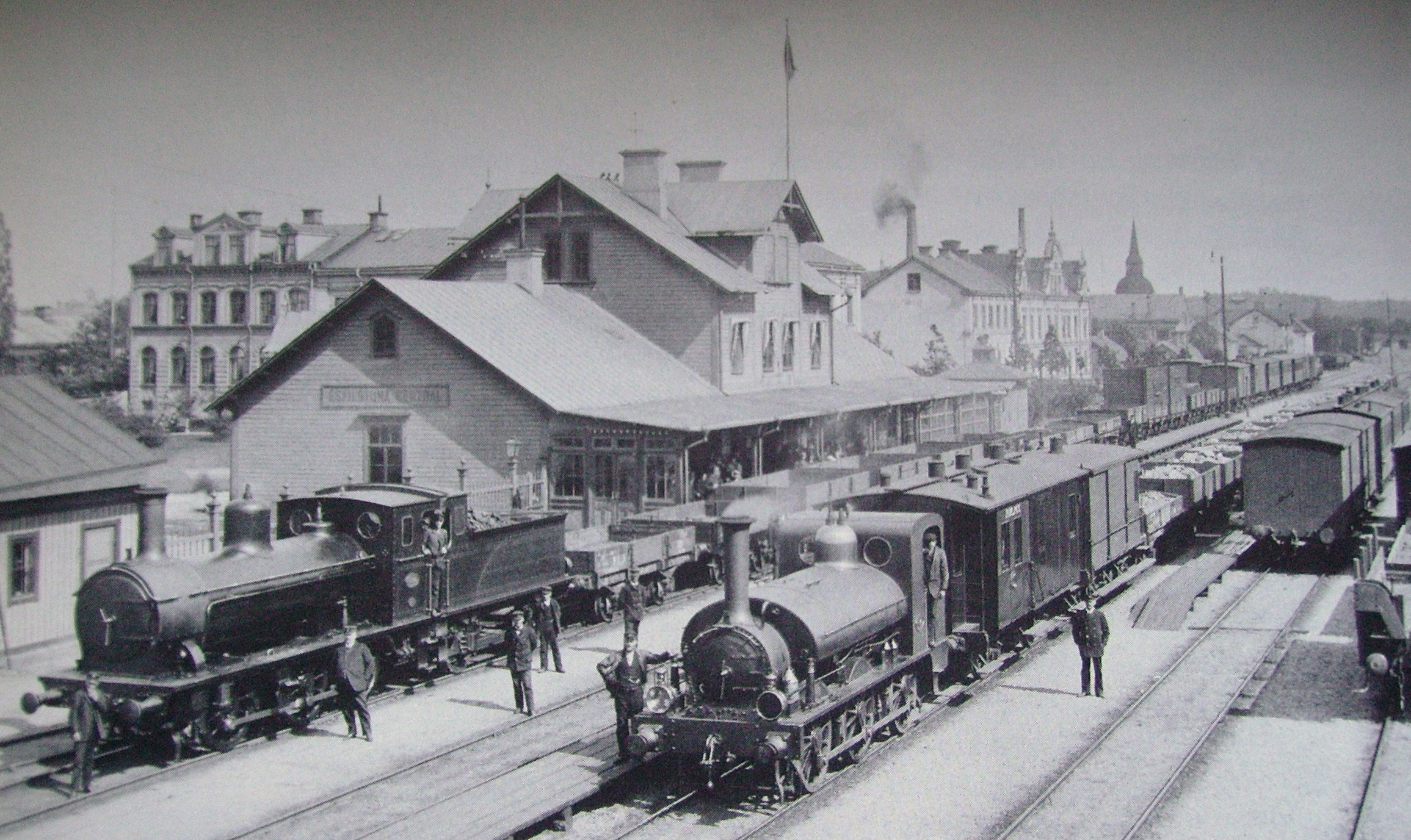 Picture of railway station in Eskilstuna